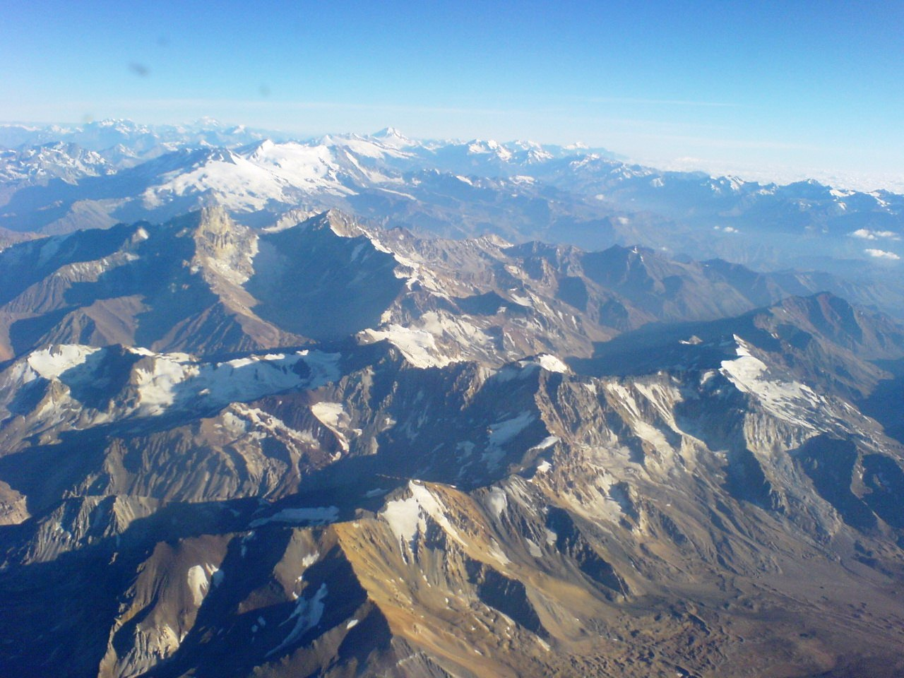 The Andes mountain range as seen from a plane, between Santiago de Chile and Mendoza, Argentina, in summer.